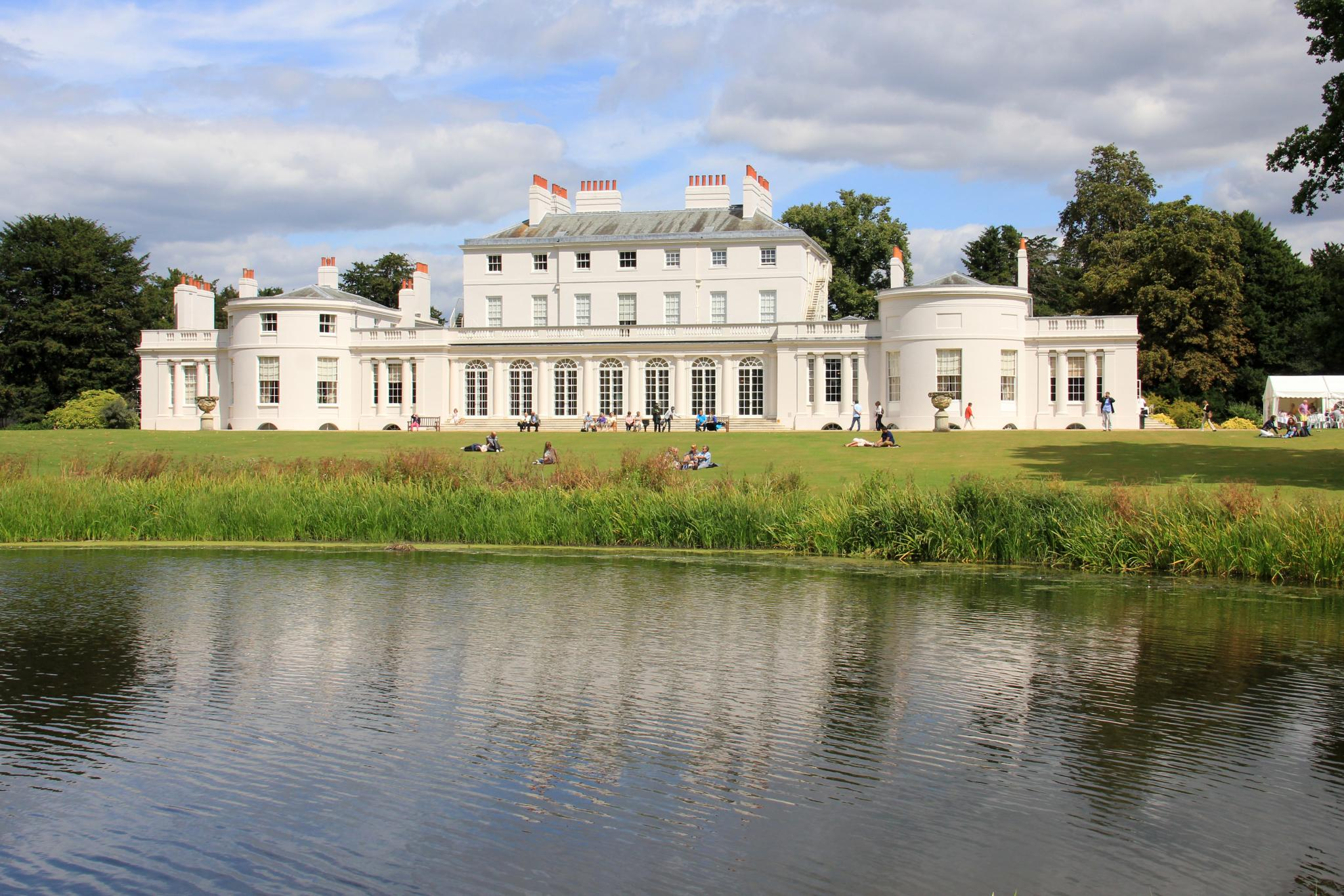 Frogmore House is a 17th Century country house standing at the centre of the Frogmore Estate, amongst beautiful gardens and about a half a mile south of Windsor Castle, situated in the tranquil setting of the private Home Park. It is a Grade I listed building. A country residence of various monarchs, the house is especially linked to Queen Victoria. The house and attractive gardens were one of Queen Victoria's favourite retreats. In the gardens stands the Mausoleum where Queen Victoria and her husband Prince Albert are buried. Today, Frogmore House is no longer a Royal residence, but the house and gardens are sometimes used by the Royal Family for official purposes such as receptions.